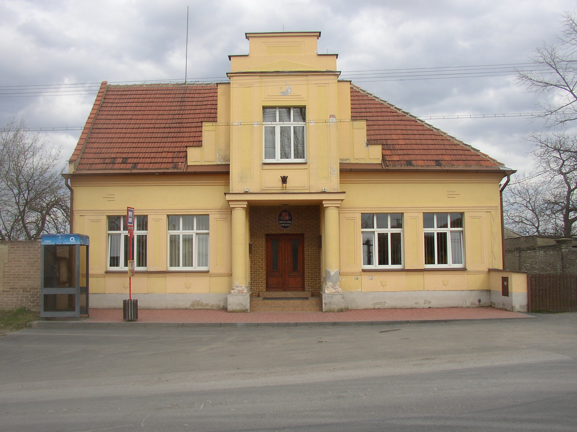 Cvrčovice, Kladno District, Czech Republic. Municipal office building with bus stop - beginning of line 2 to Kladno.